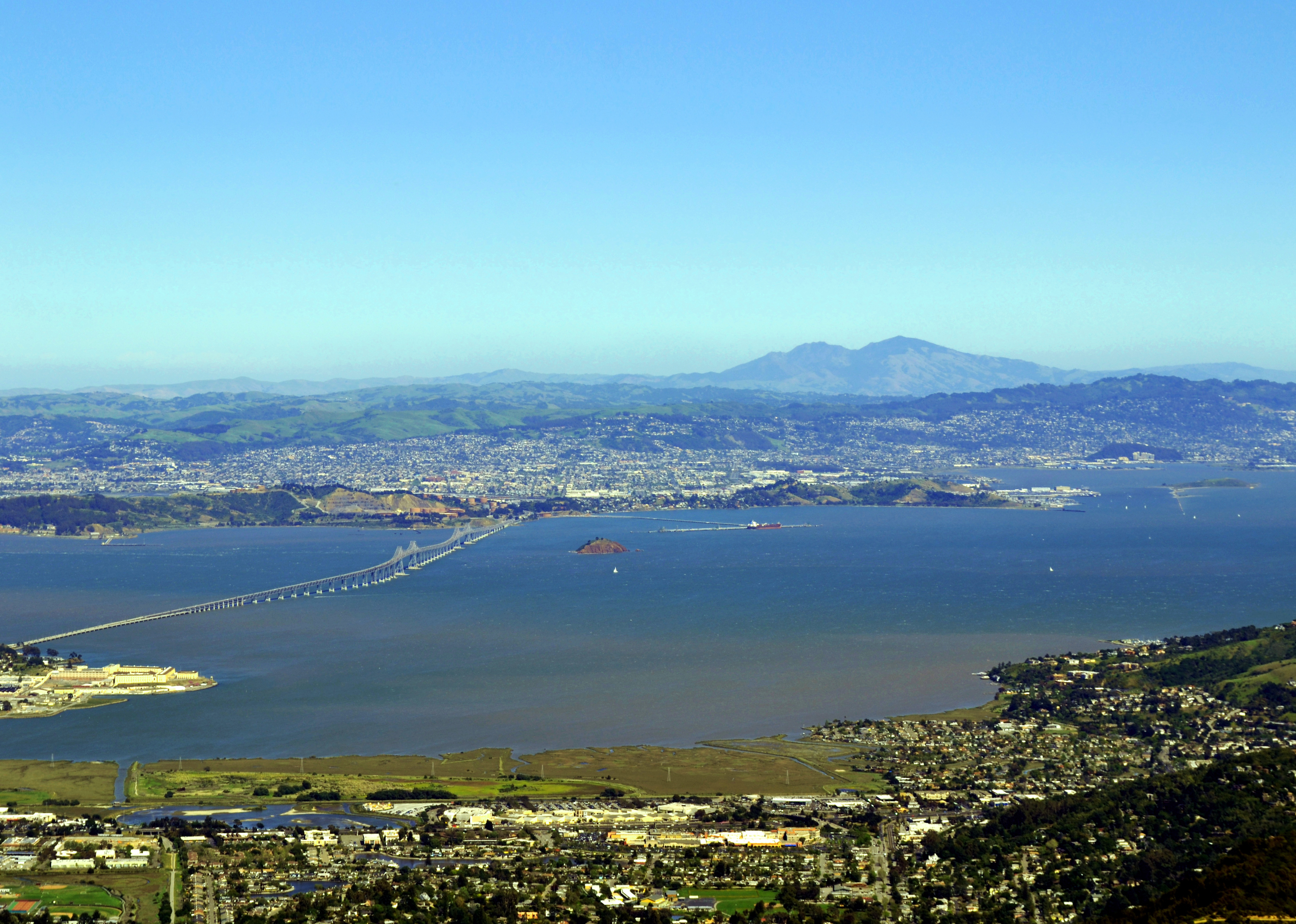 Mount Diablo in with San Francisco Bay and Richmond–San Rafael Bridge in the foreground